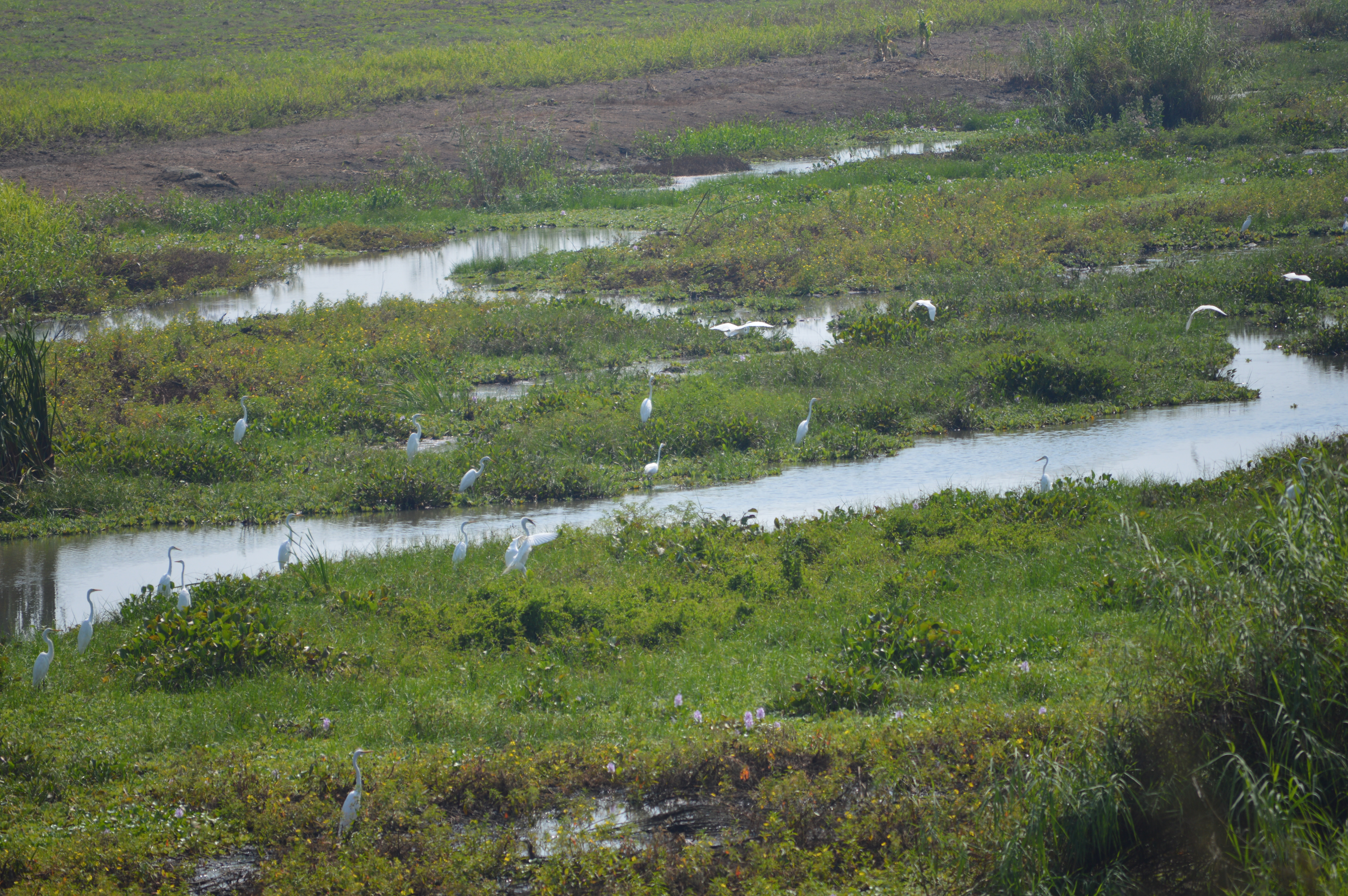 canal near the town of Otatitlan, Veracruz, Mexico